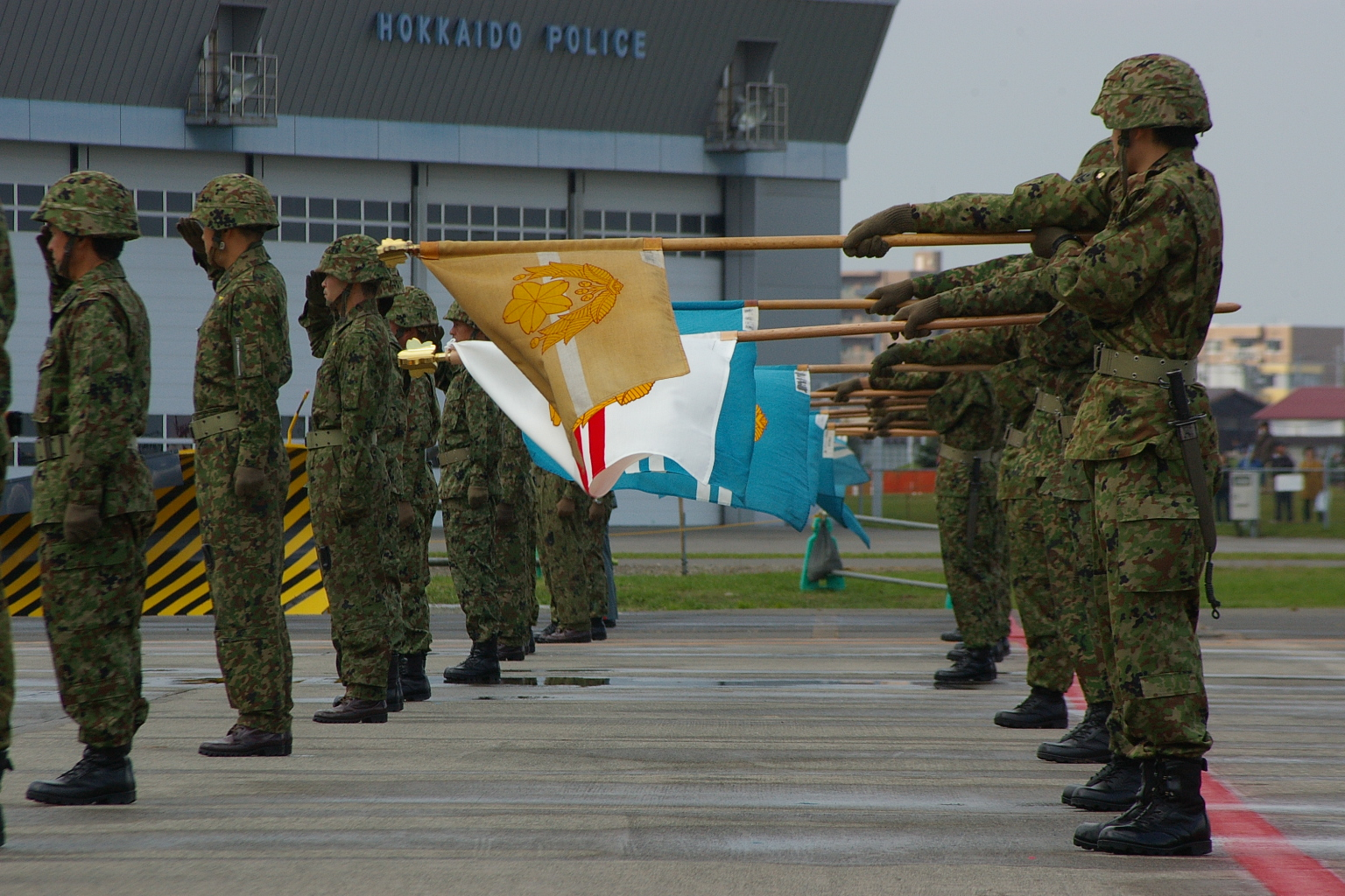 Salutation with a flag by JGSDF Force.